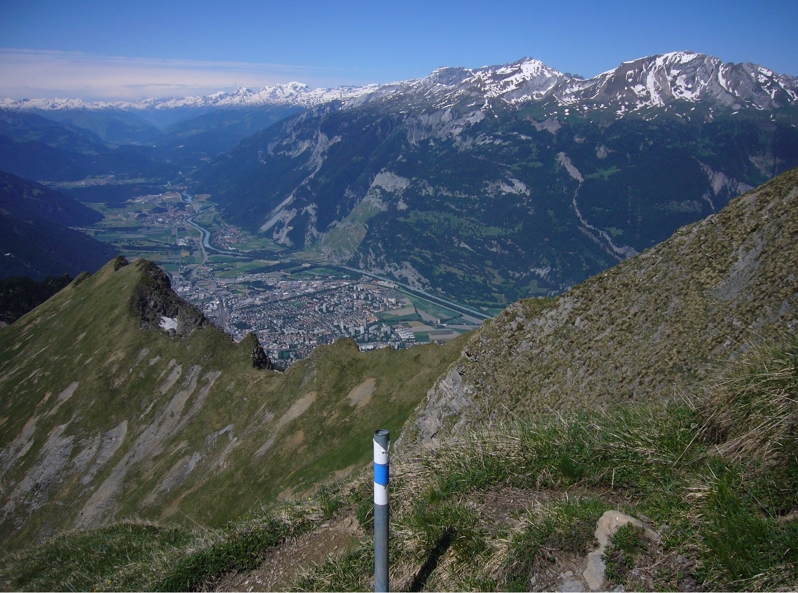 View over Chur, capital of Graubünden, Switzerland, to the West along the Valley of the Rhine (direction to its source). Photo taken from mountain path to peak Montalin.